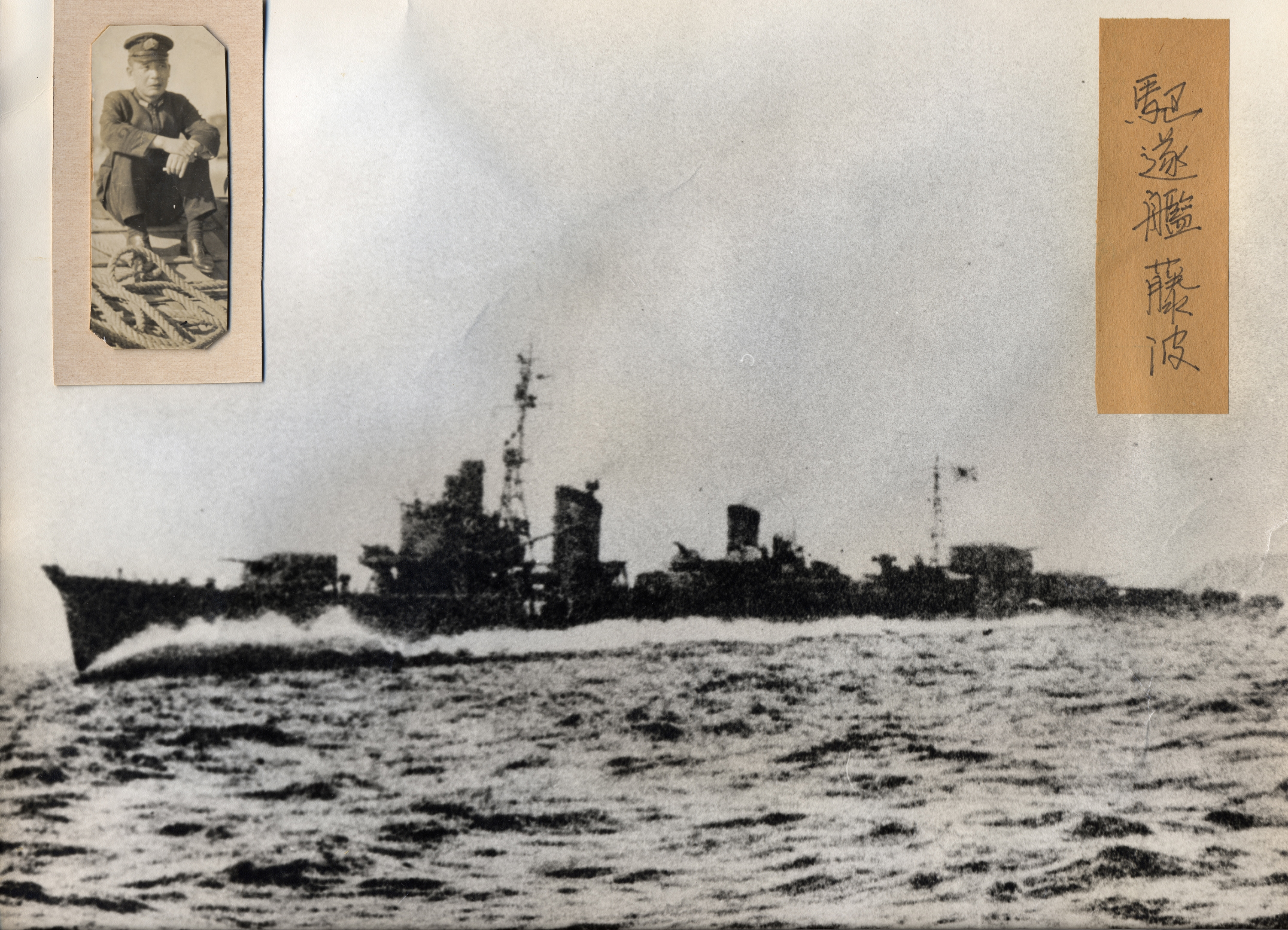 This is the only known photograph of the Imperial Japanese Navy destroyer Fujinami and its Captain, Matsuzaki Tatsuji.